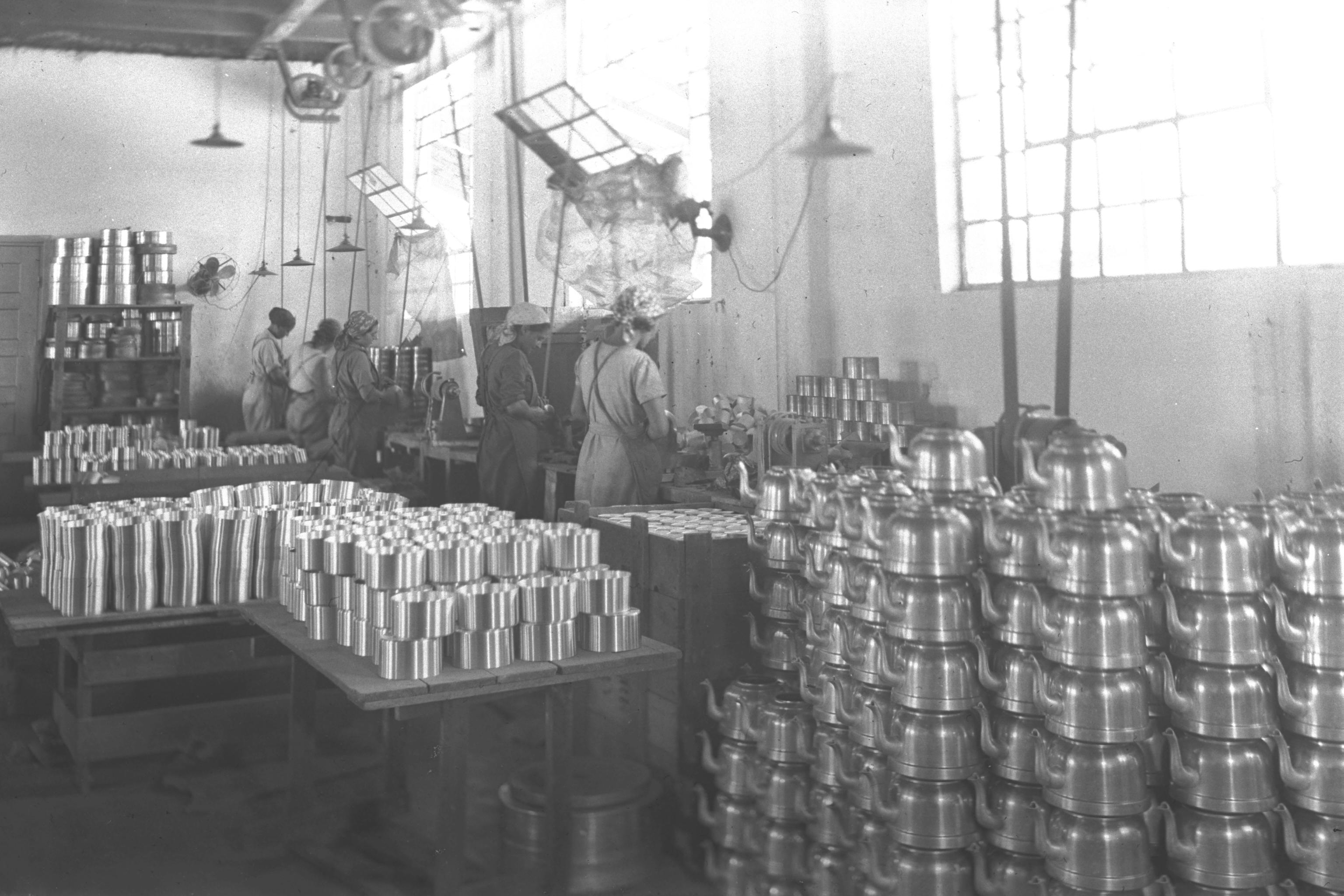 THE "PALALUM" ALUMINIUM COOKING POTS FACTORY IN RAMAT GAN. מפעל "פללום" לסירי בישול מאלומיניום ברמת גן.